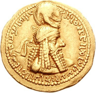 Coin of Ardashir I.